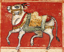 bull of 14 auspicious dreams in Jainism